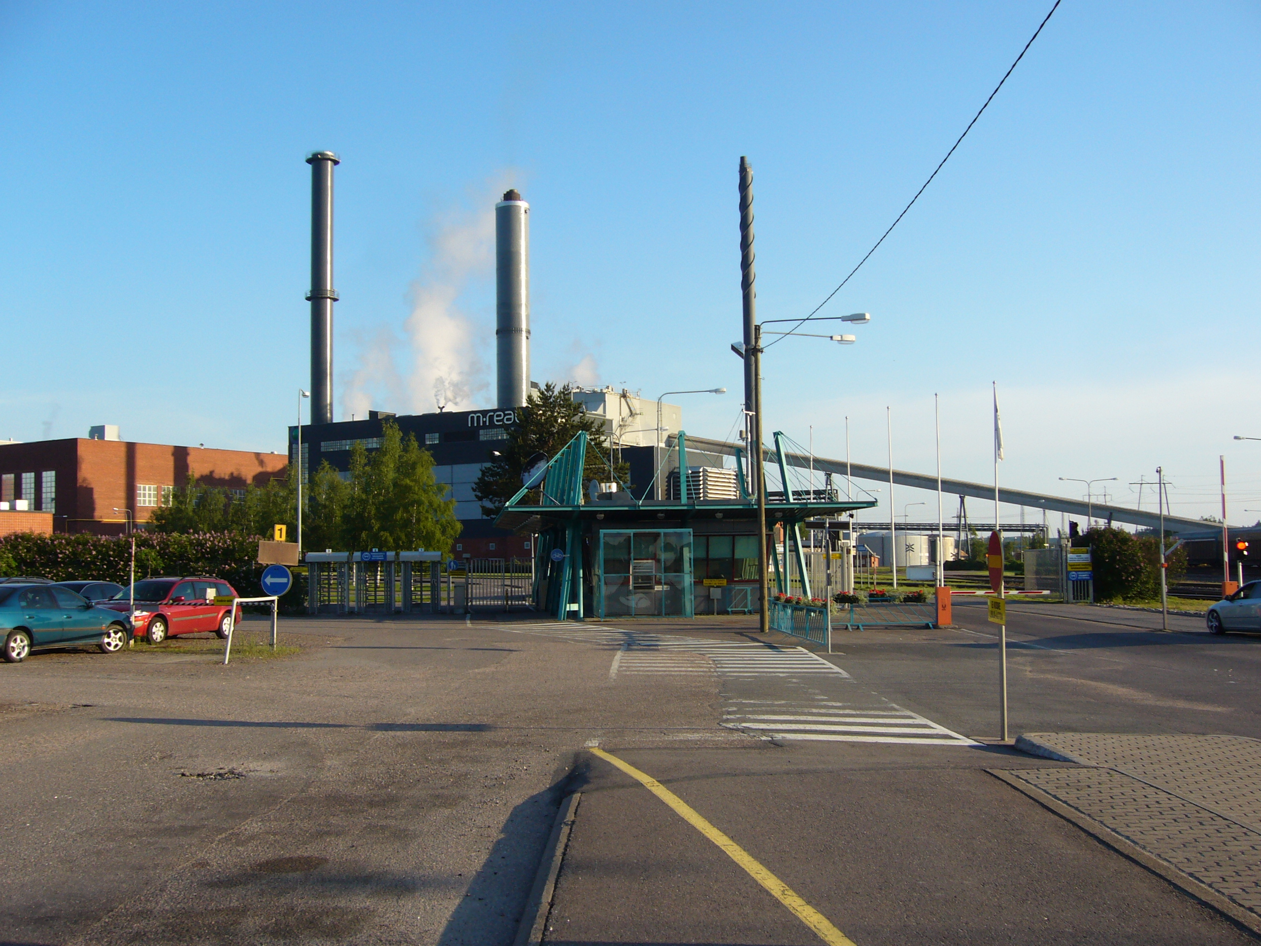 Kirkniemi papermill, Lohja, Finland. The main gate in front.